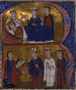 Miniature: death of Baldwin III, coronation of Amalric I